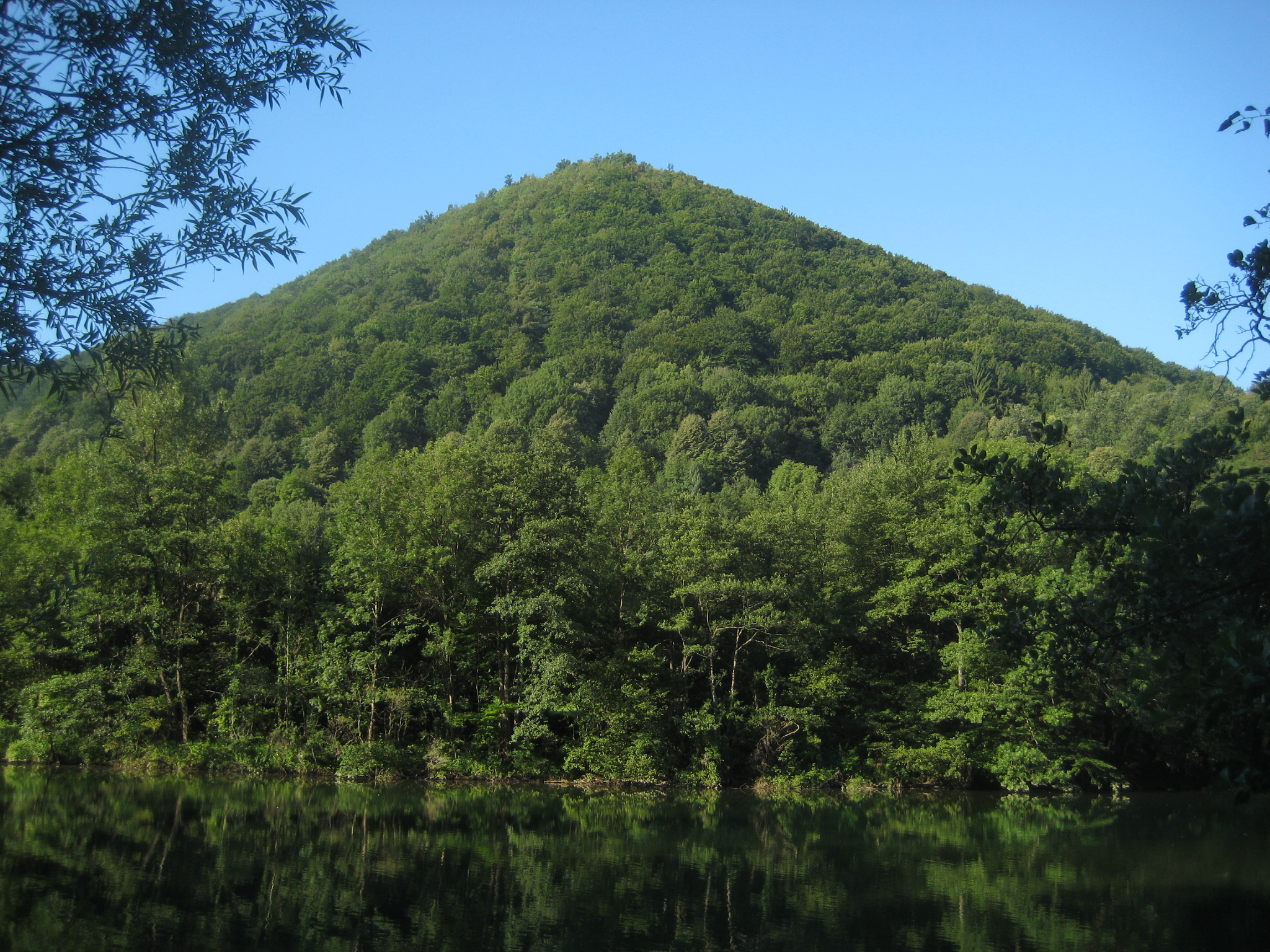 Kolpa river, Slovenia